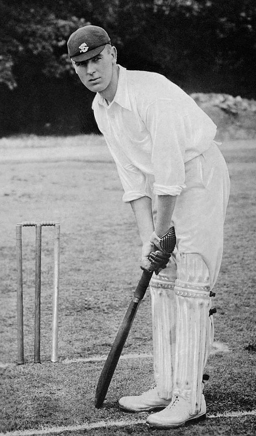 Vivian Frank Shergold Crawford, Leicestershire county cricket team, circa July 1904.